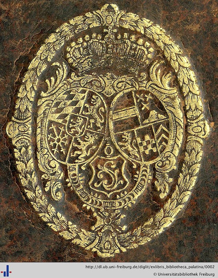 Supralibros of the Bibliotheca Palatina in Mannheim (before 1799)